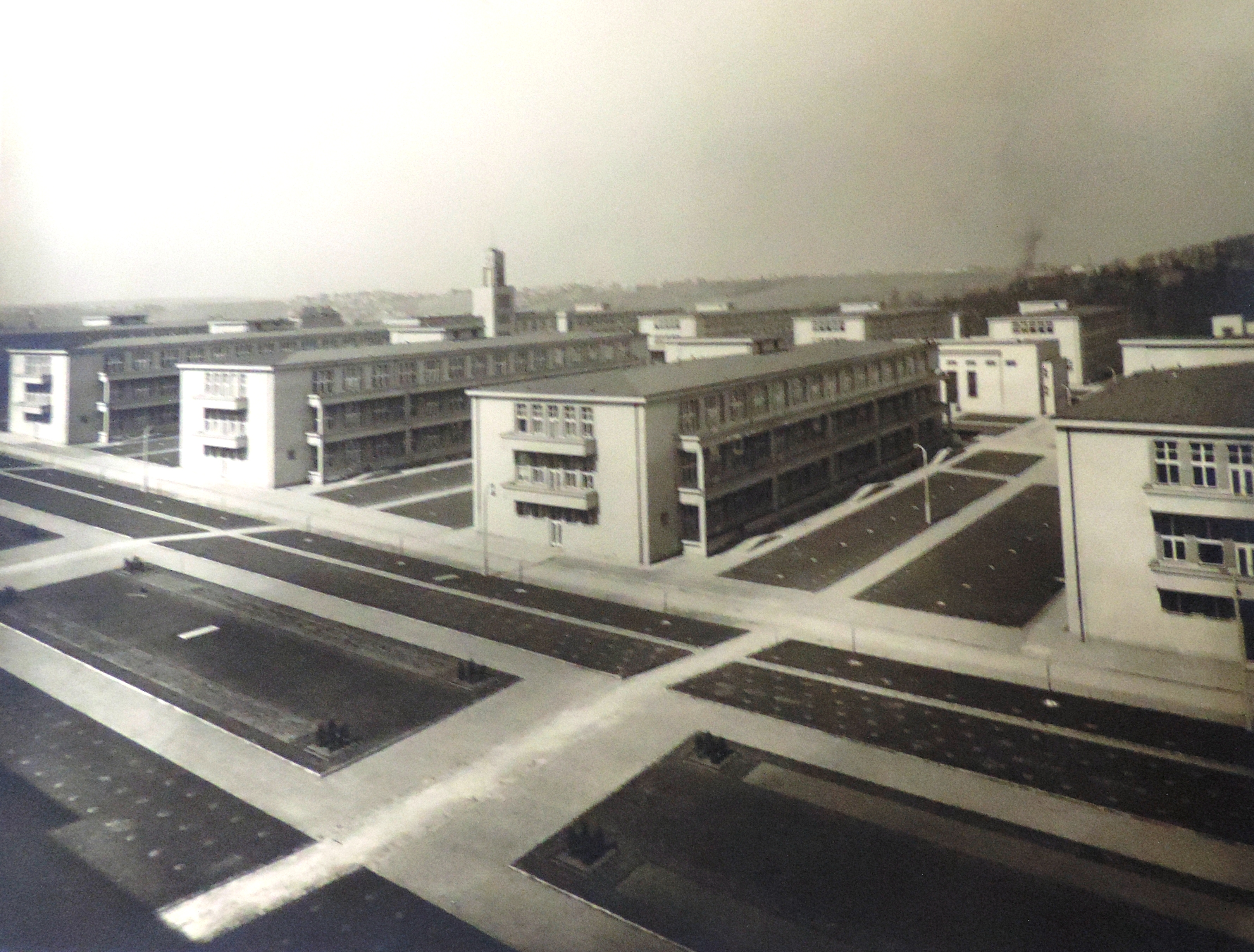 Masarykovy domovy